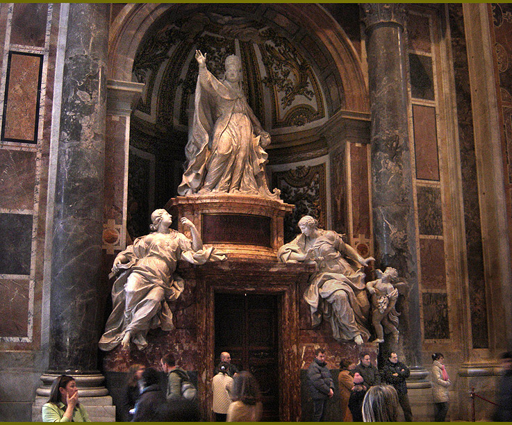 Tomb of Pope Benedict XIV, St. Peter's Basilica, Vatican